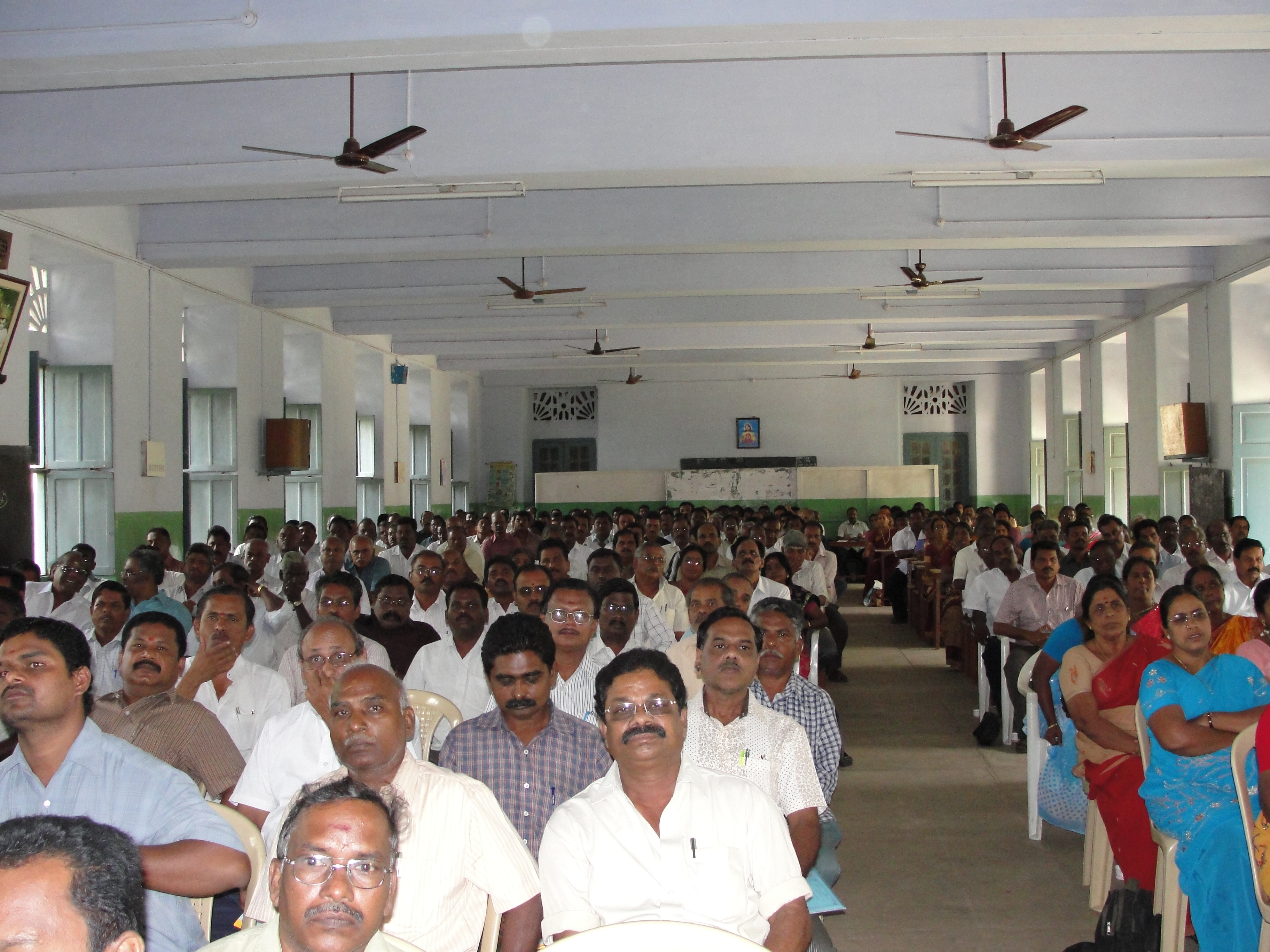 An image of participants of Tamil Administrative Language Conference. Location:The Little Flower Higher Secondary School, Salem, Tamil Nadu, India. Date: 05 and 06/01/2012